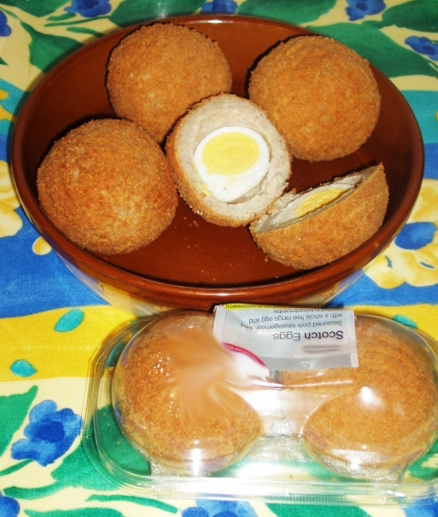 ScotchEgg M&S version